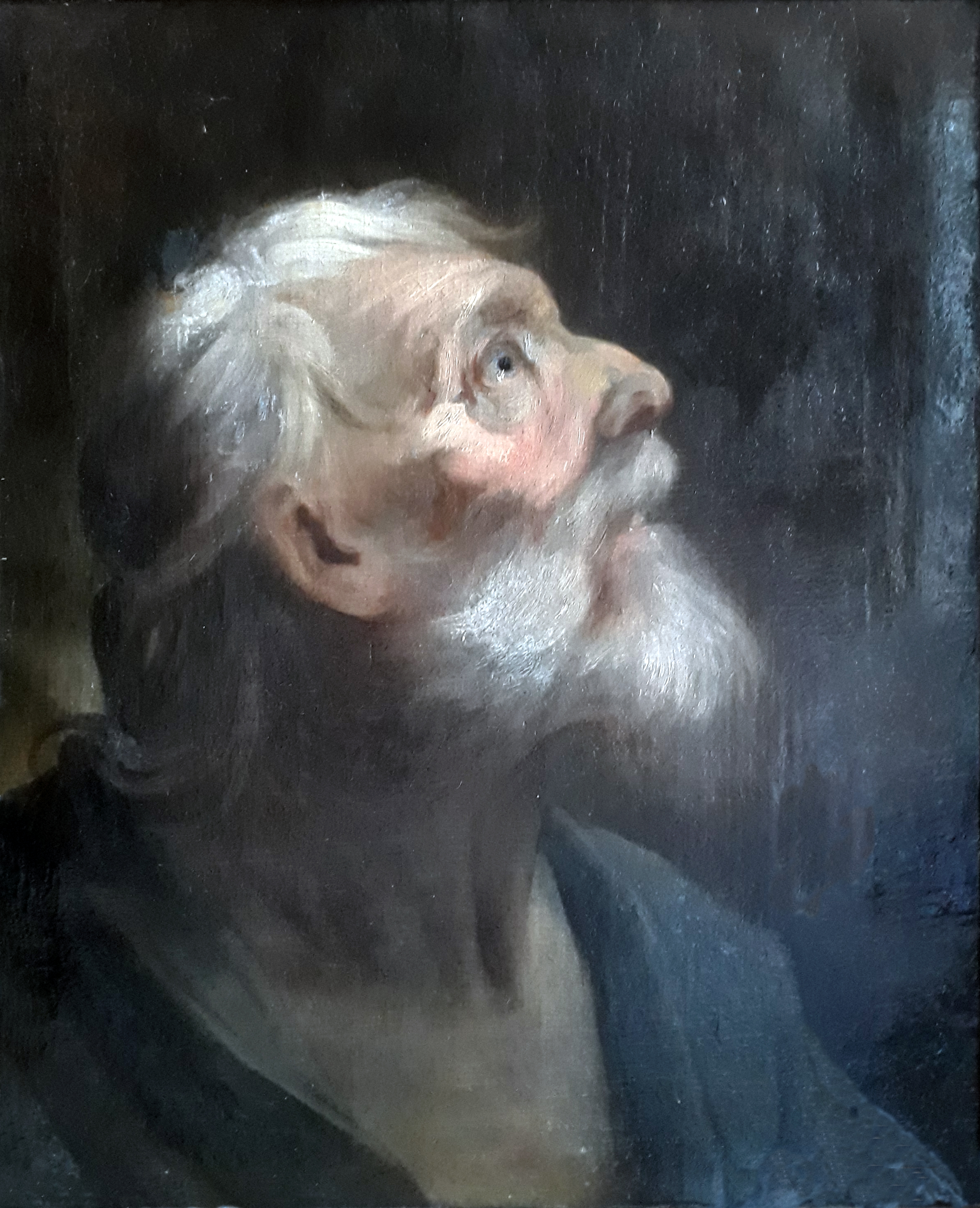 Cavaliere Carlo Francesco Rusca (Swiss, 1696–1769) Vision of St. John the Evangelist, 1737 oil on canvas, 50 x 40 cm. (19.7 x 15.7 in.)